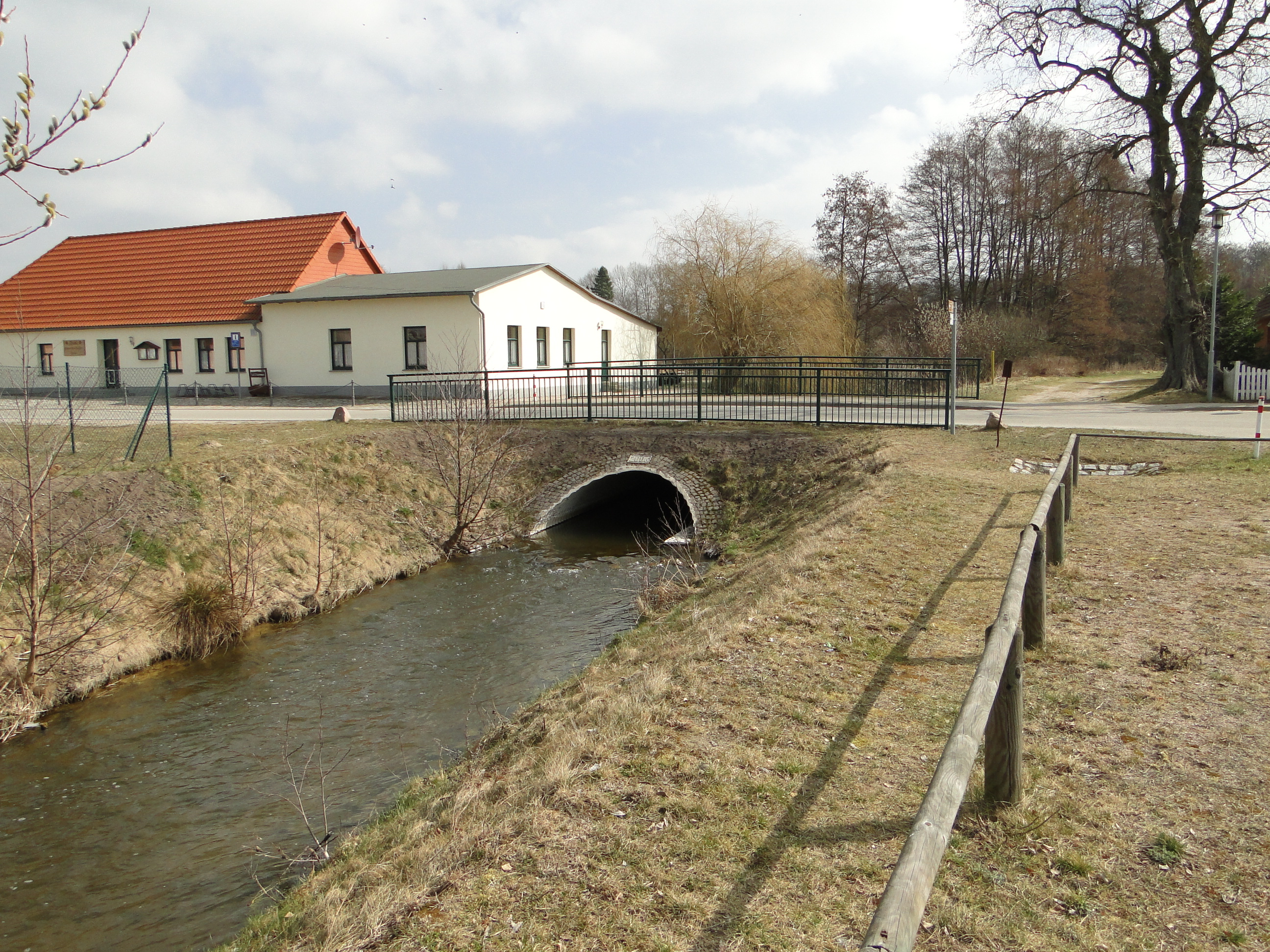 Bridge over the Mildenitz river in Sandhof, district Parchim, Mecklenburg-Vorpommern, Germany